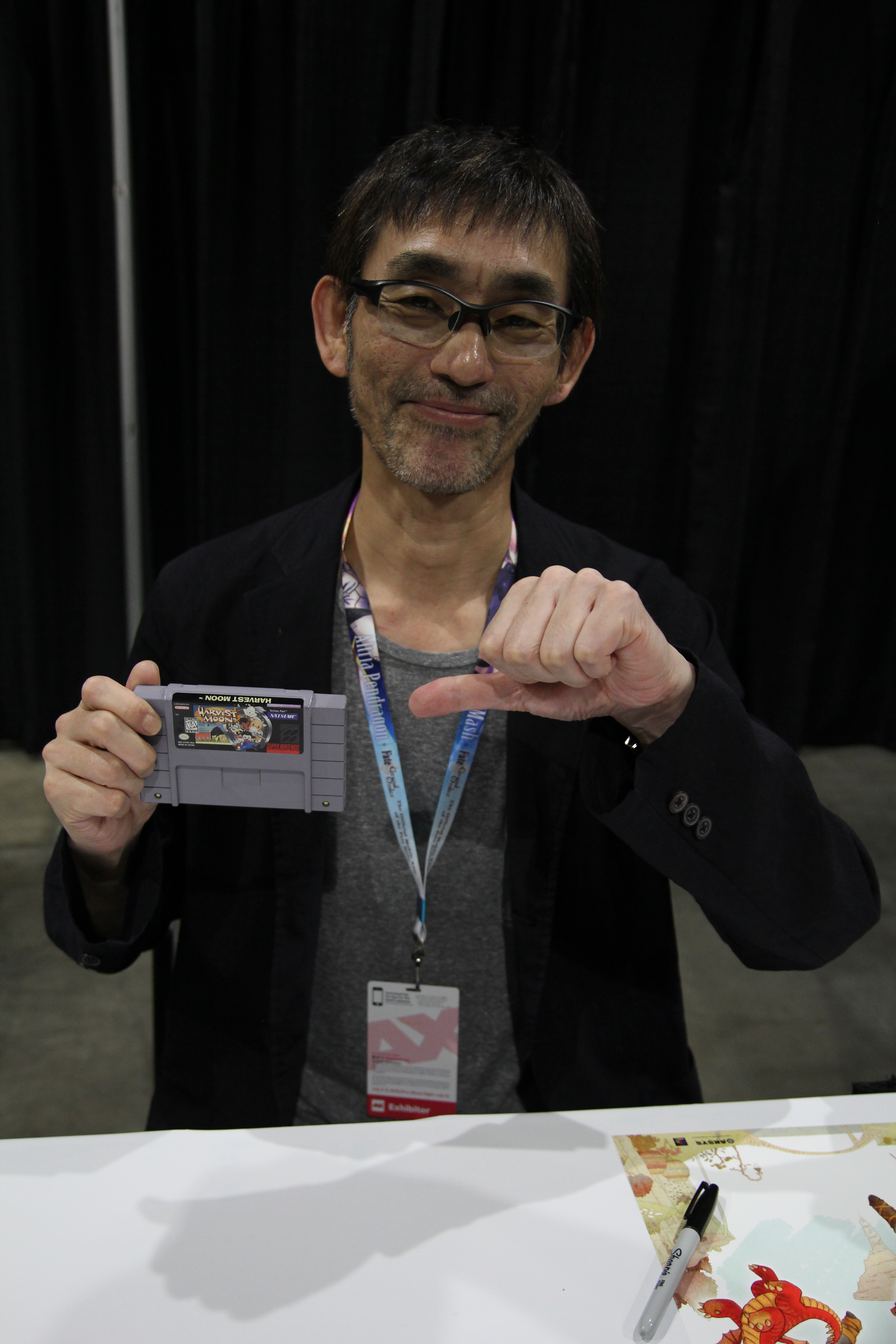 Yasuhiro Wada at Anime Expo 2018 holding up a SNES cartridge for the game Harvest Moon.